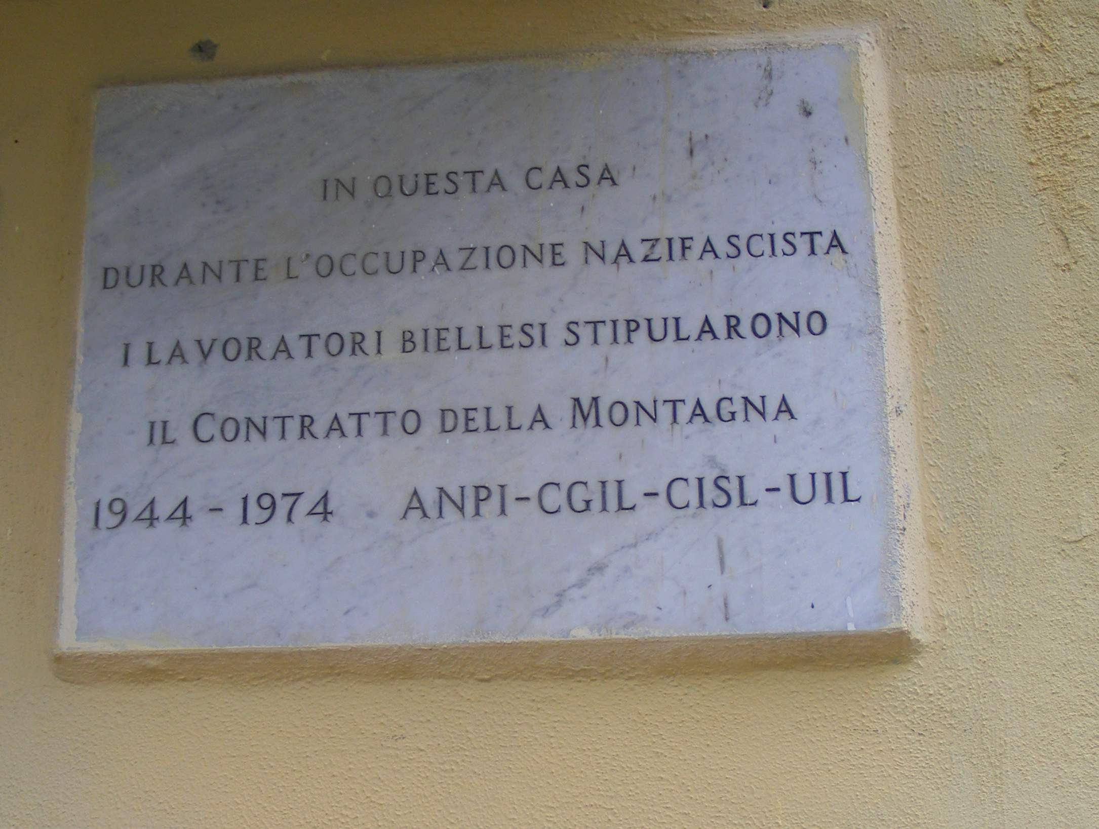 Memorial tablet about the collective employment contract signed in Selve Marcone (BI, Italy) during the 2nd world war.